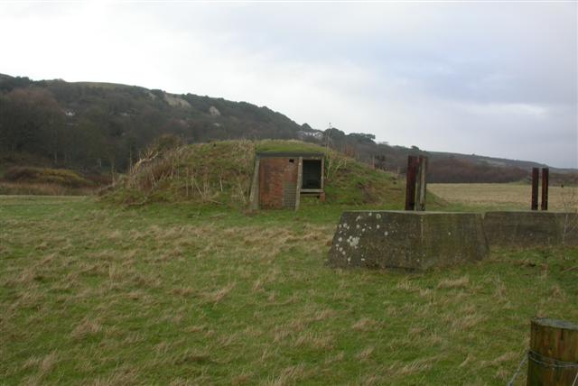 RAF St.Lawrence. Remains of a buried reserve CH radar site on the southern edge of the Isle of Wight. More details can be found at